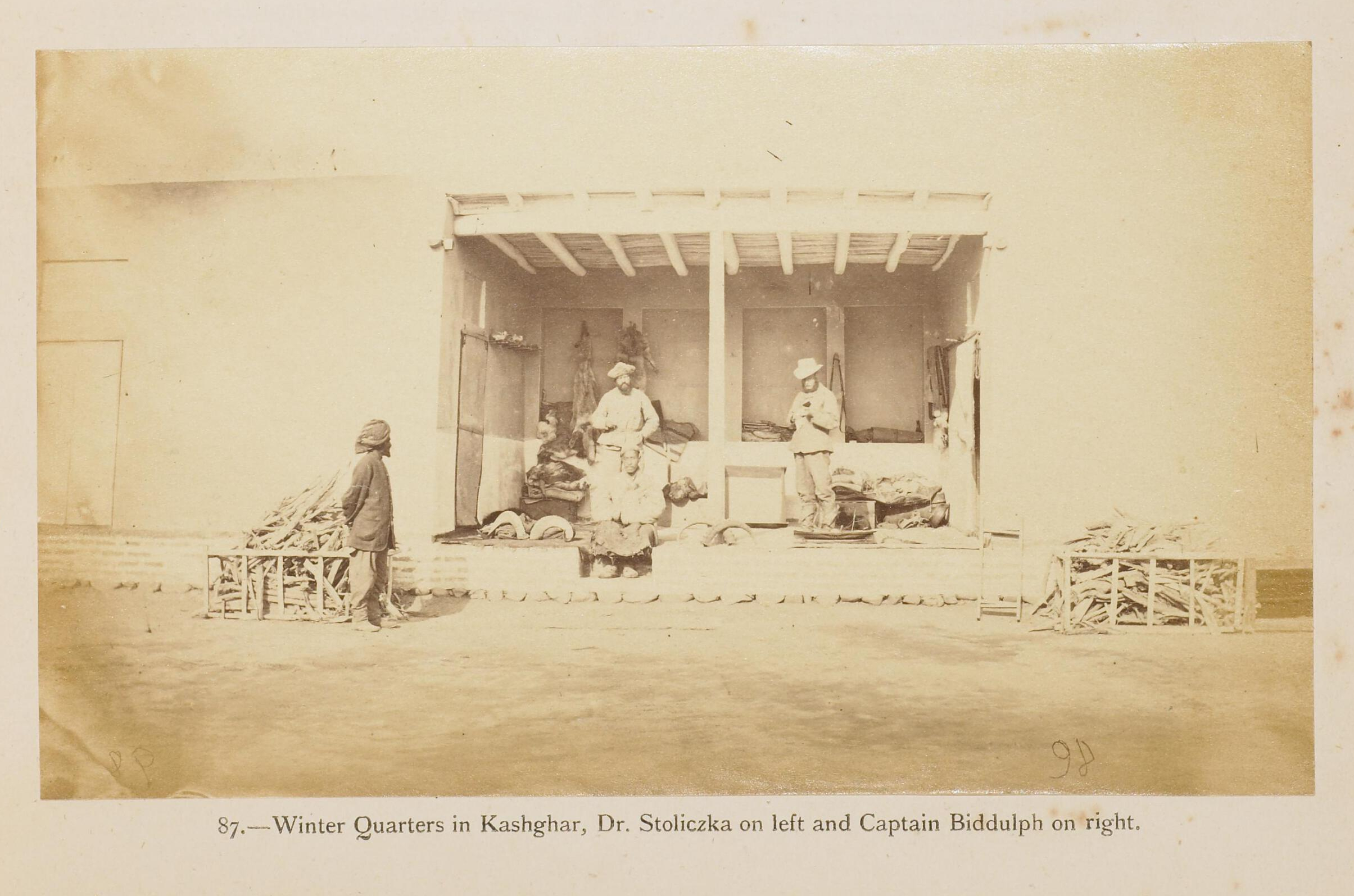 "87. Winter quarters in Kashgar, Dr. Stoliczka on left and Captain Biddulph on right"